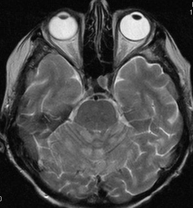 T2 weighted image of the brain - mts of breast carcinoma